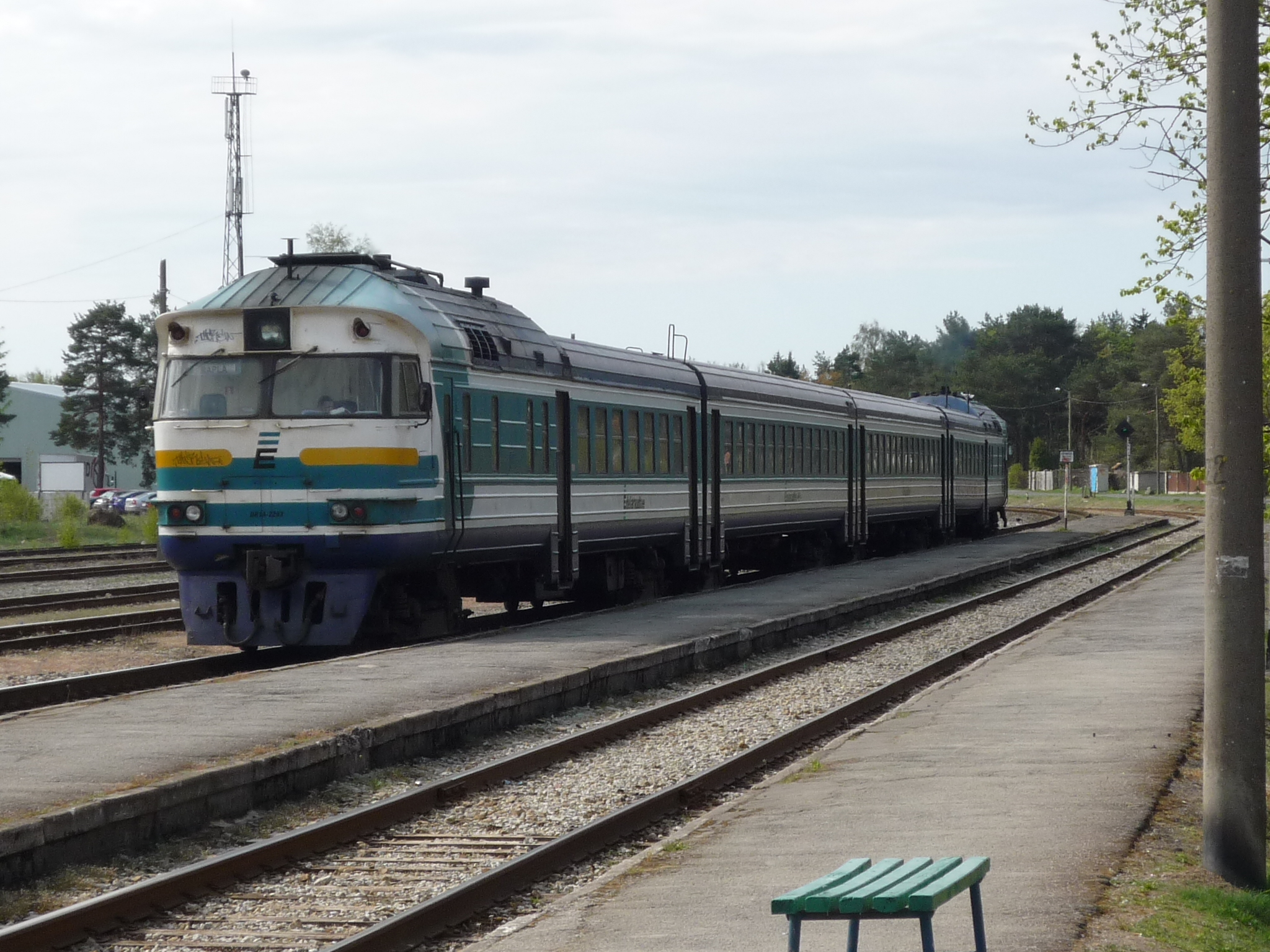 Tallinn-Rapla passenger train (Edelaraudtee company) in Liiva railway station. Estonia.